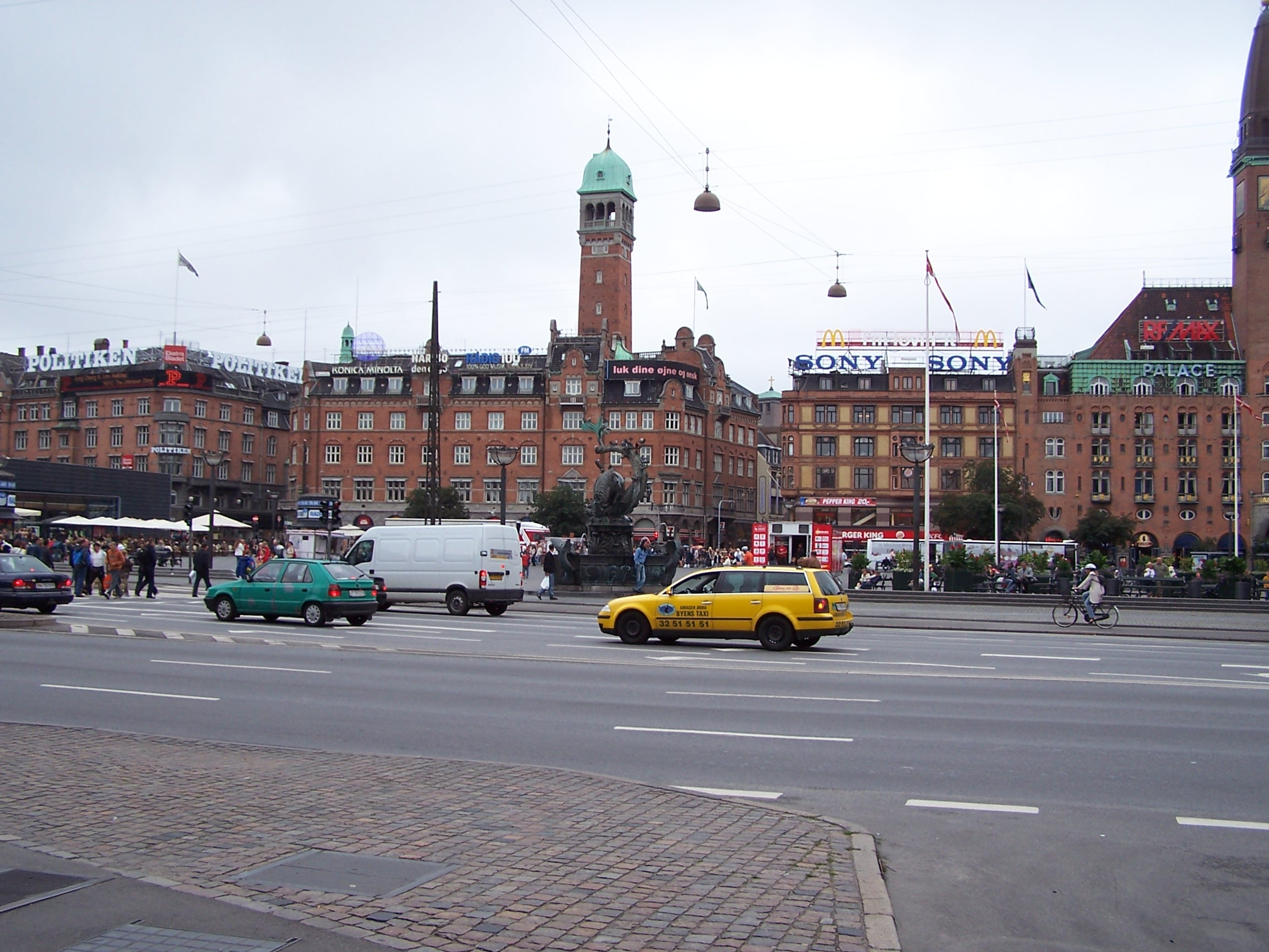 Rådhuspladsen (Town square), Copenhagen.